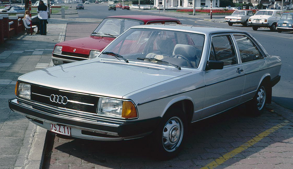 Audi 100 with only two doors